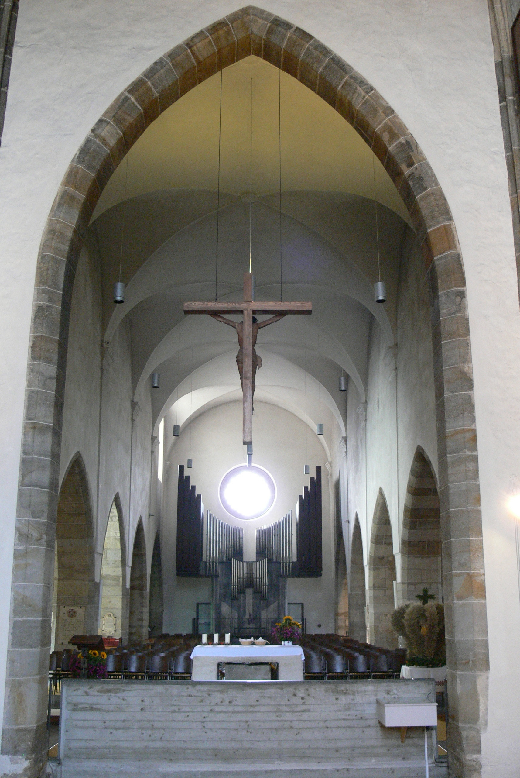 Lorch ( Enns/Upper Austria ). Basilica of Saint Lawrence: Interior